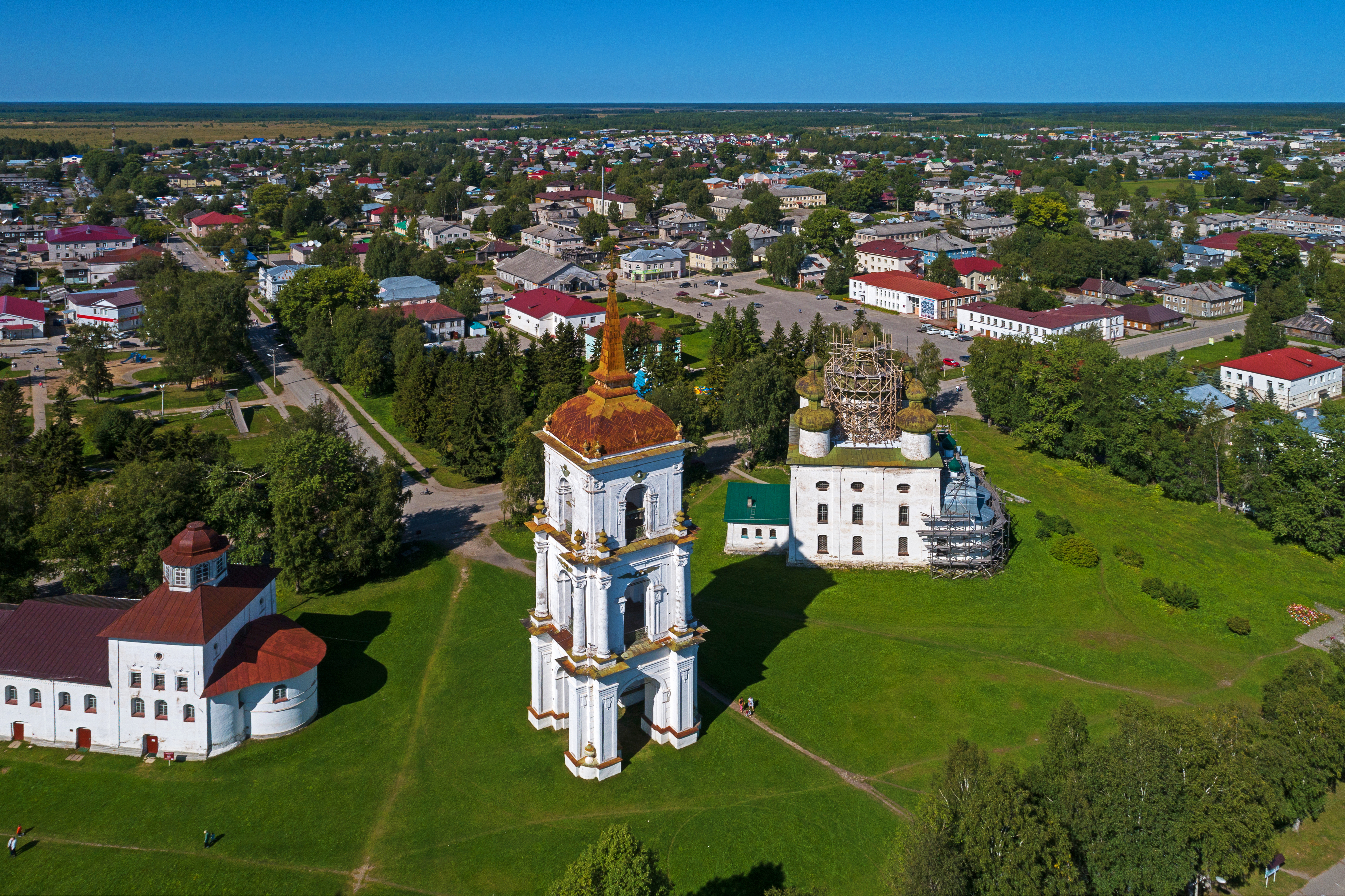 Cathedral Square in Kargopol, Arkhangelsk Oblast, Russia